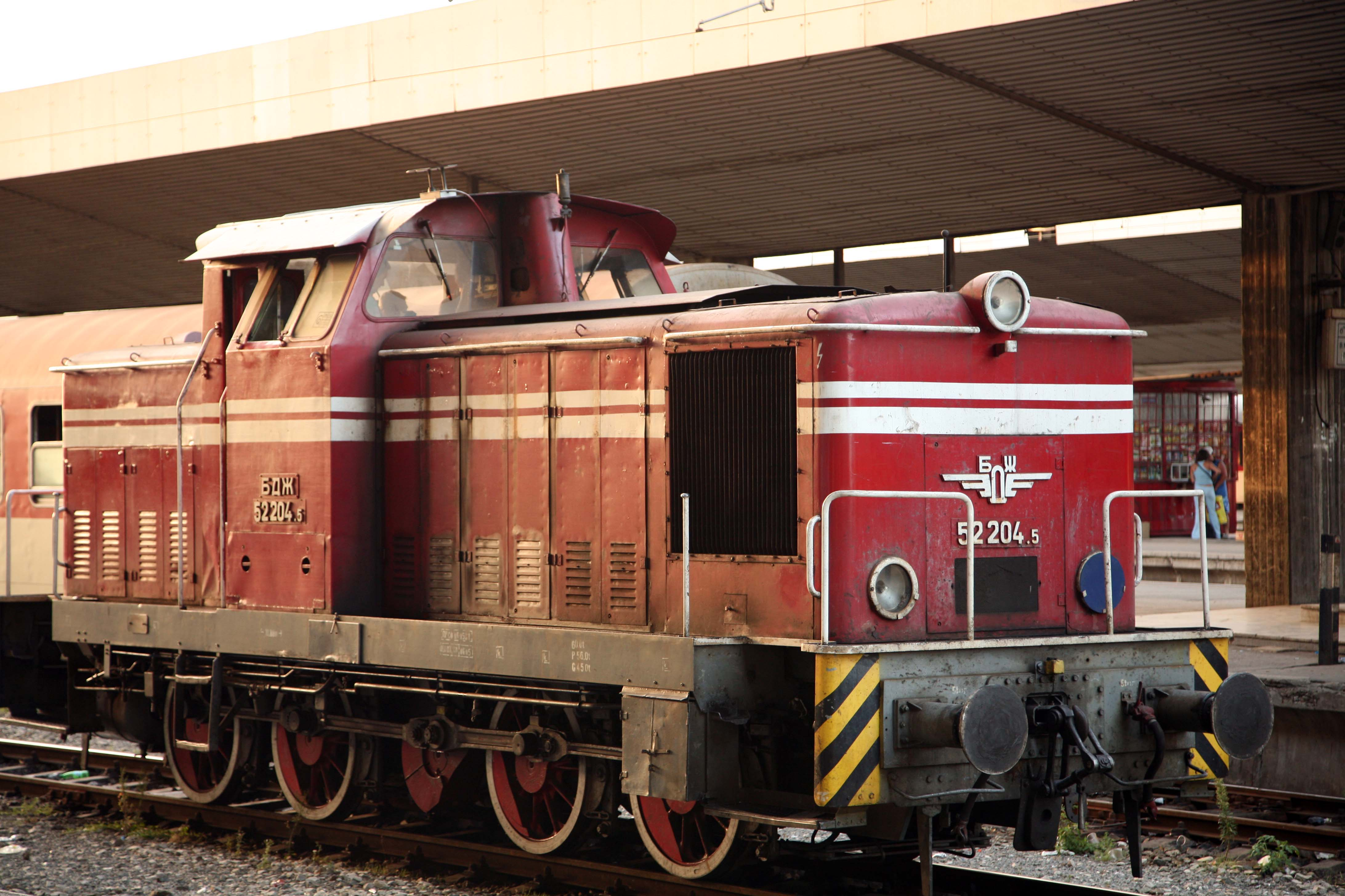 Bulgarian states railway diesel shunter 52-204.